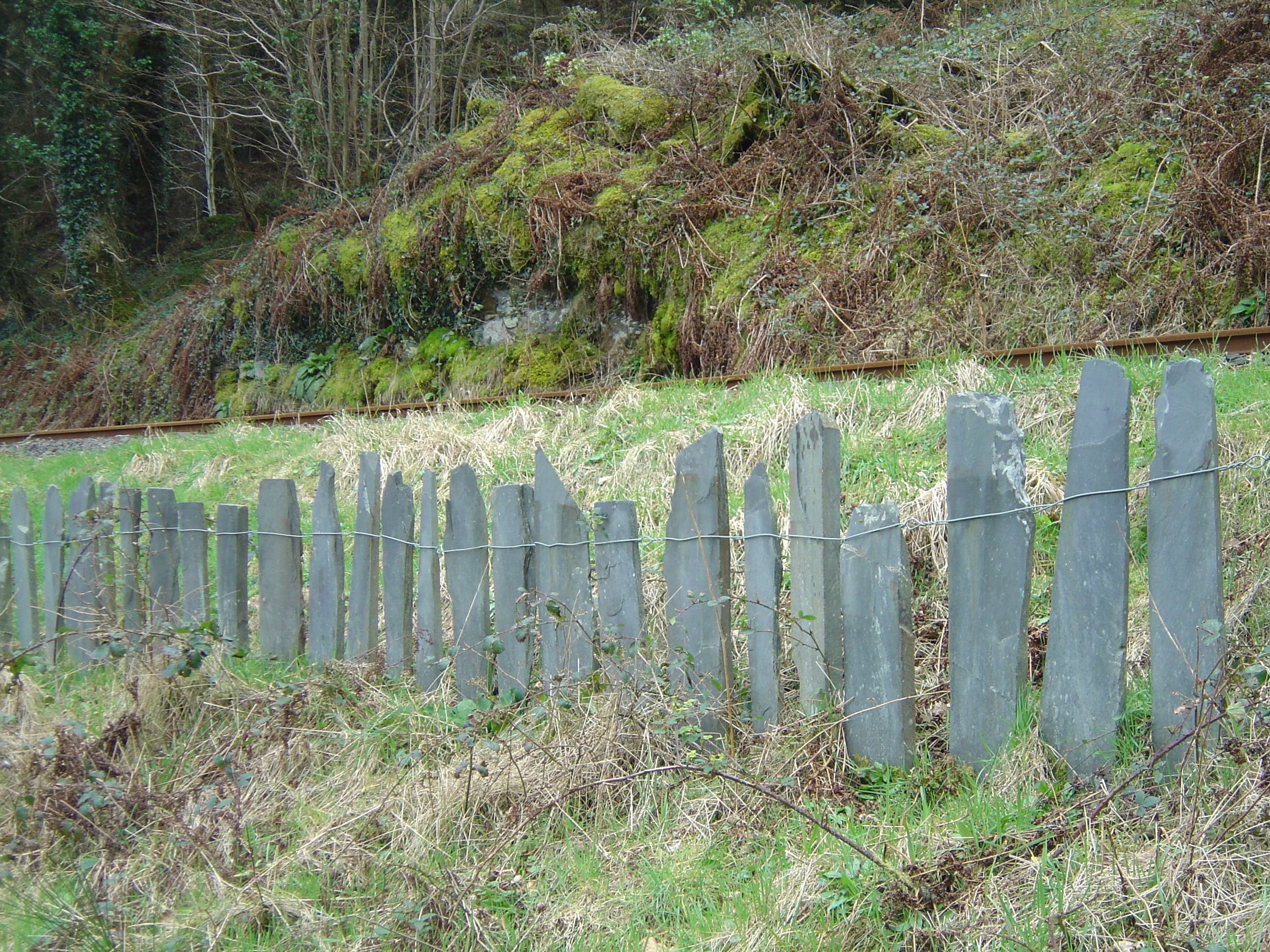 Typical slate fencing on the Talyllyn Railway, Wales